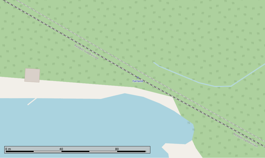 Map showing the Farlane station stop in Northern Ontario, along the Redditt subdivision. One passing track to the north, stop is located at the north end of Cache Lake.